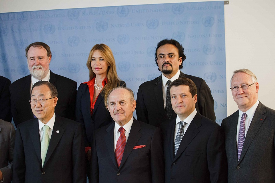 UCLG President Kadir Topbaş heads delegation meeting with UN Secretary-General Ban Ki-Moon. See more at